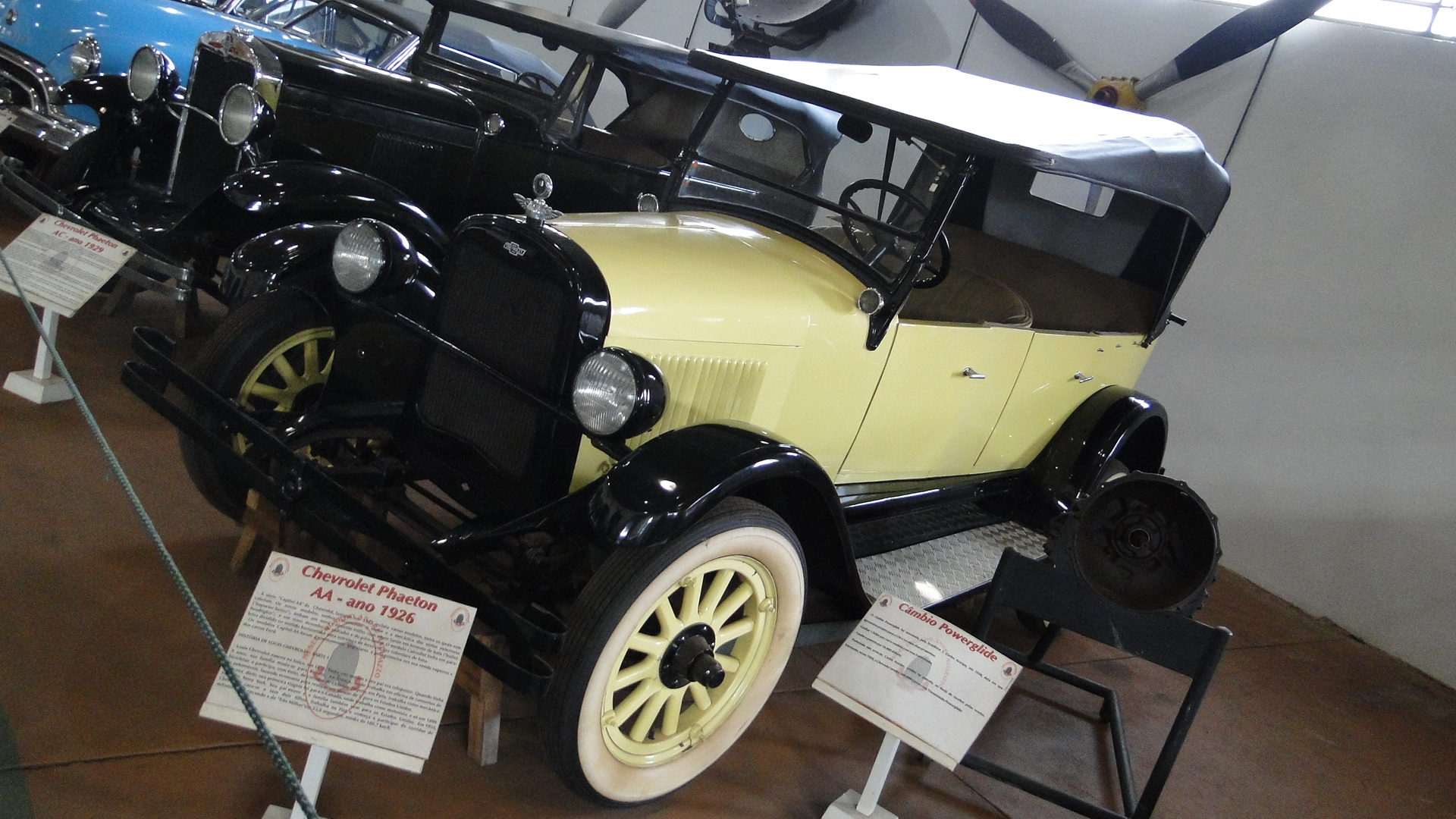 Chevrolet Phaeton AA ano 1926